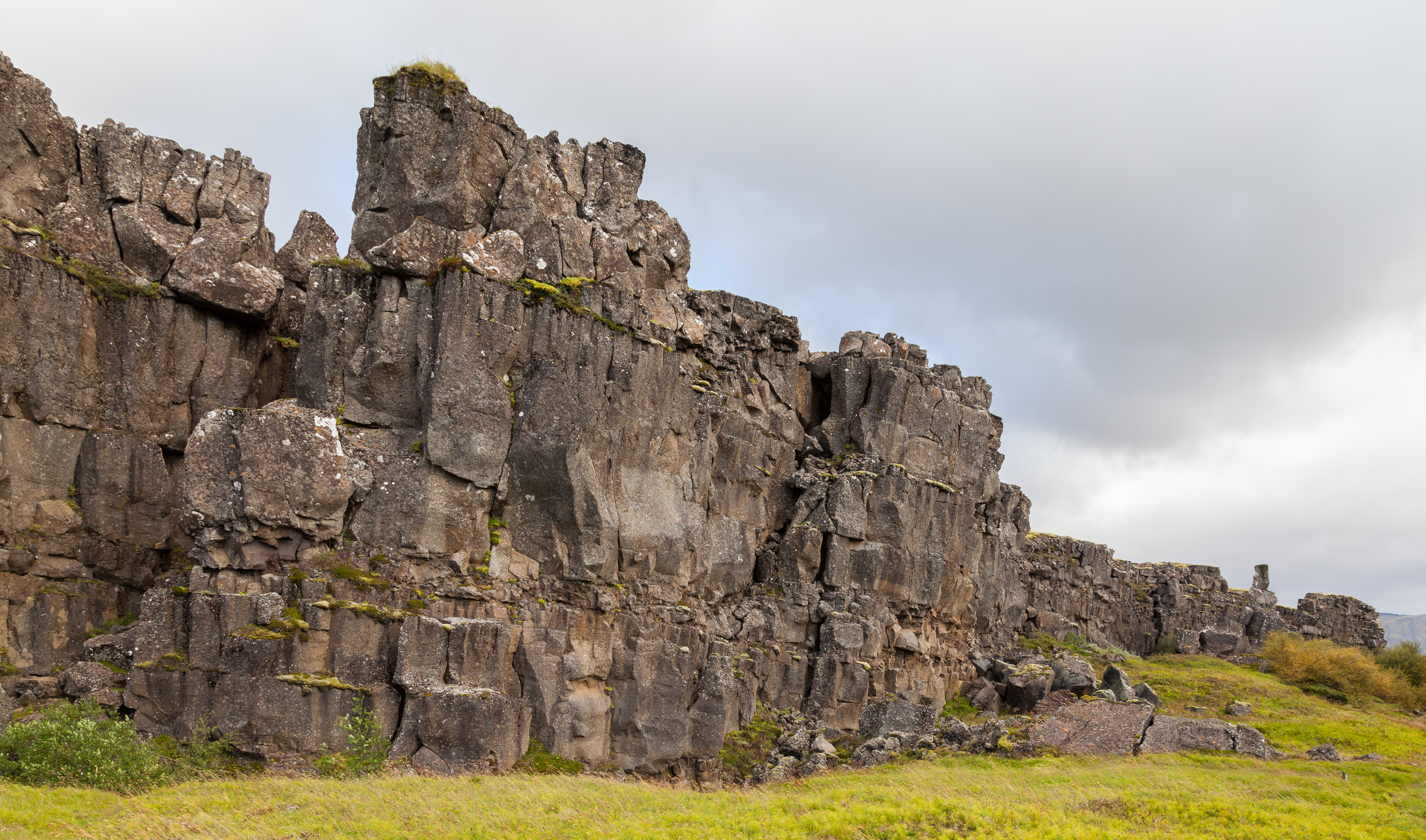 Law Rock, Þingvellir National Park, Suðurland, Iceland